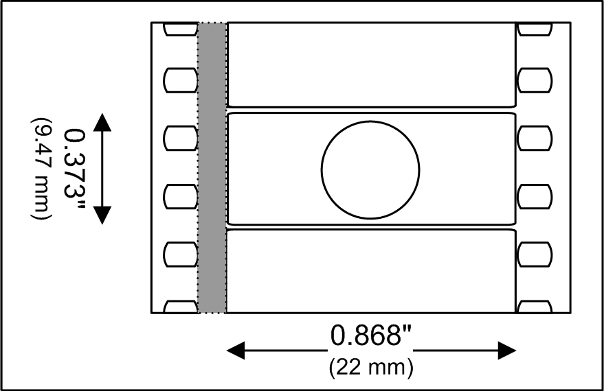 A frame of Techniscope 35 mm 2 perf film. Drawn in visio by myself (Max Smith). Released into the public domain. A credit would be nice.